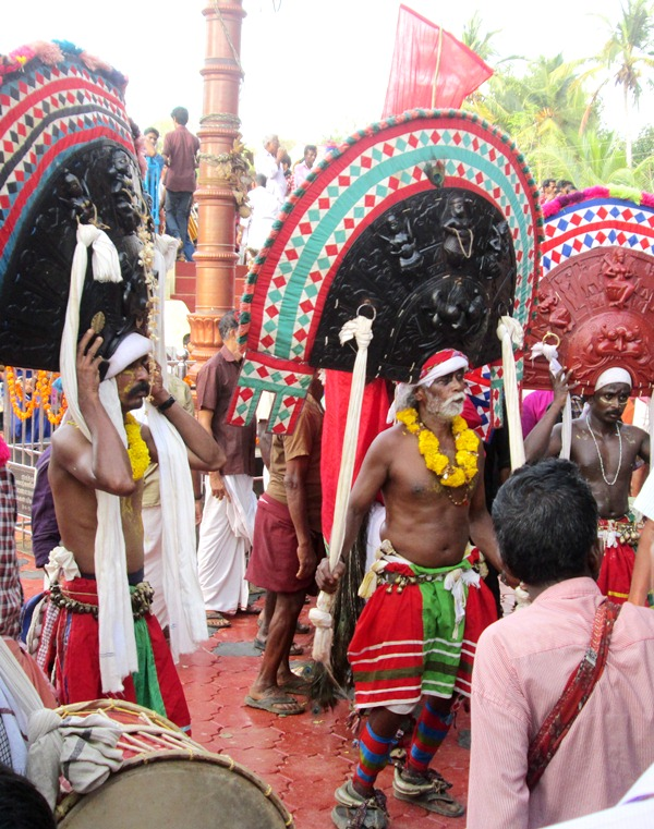 Thira, a popular ritual form of worship.